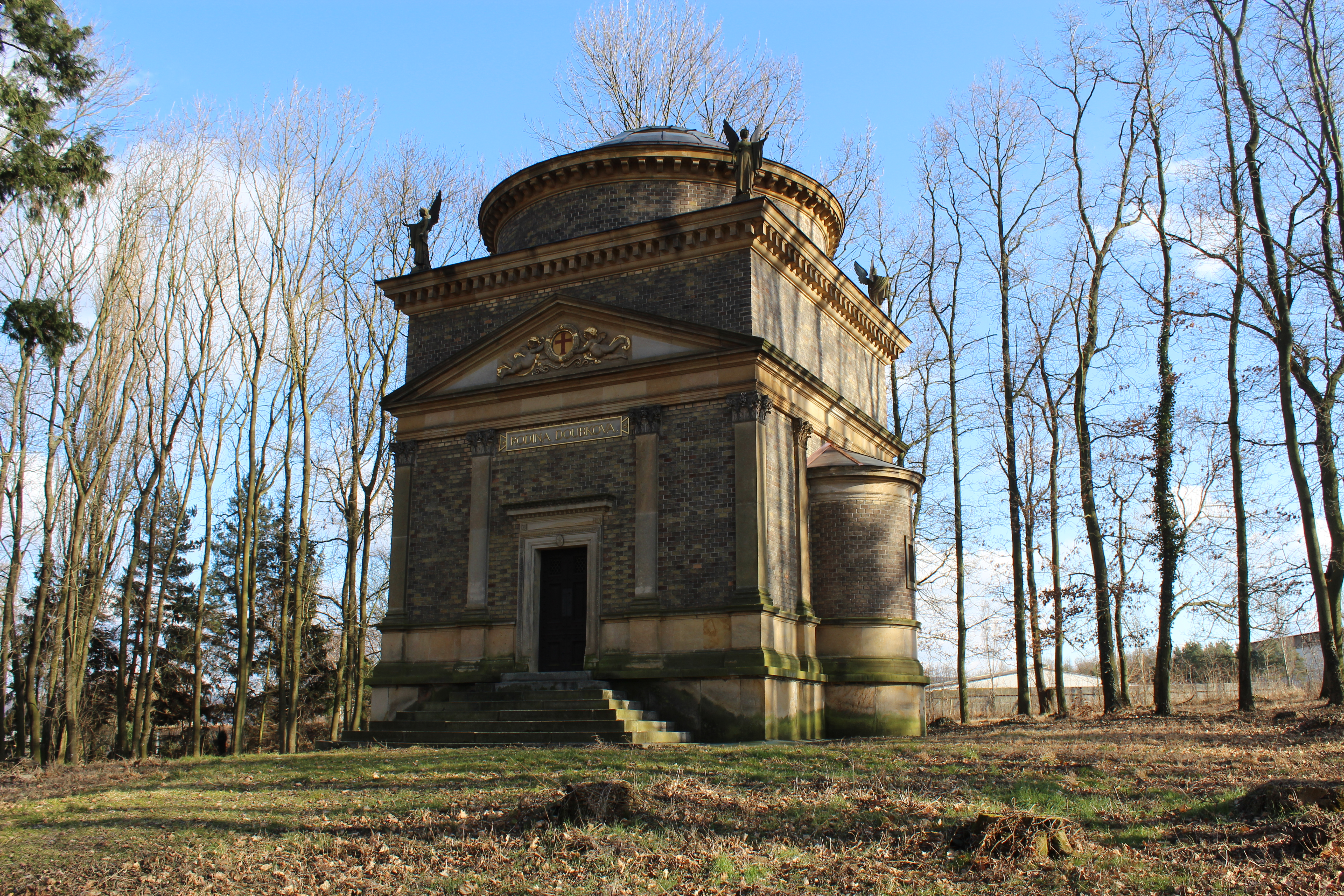 Funeral chapel of Daubek family